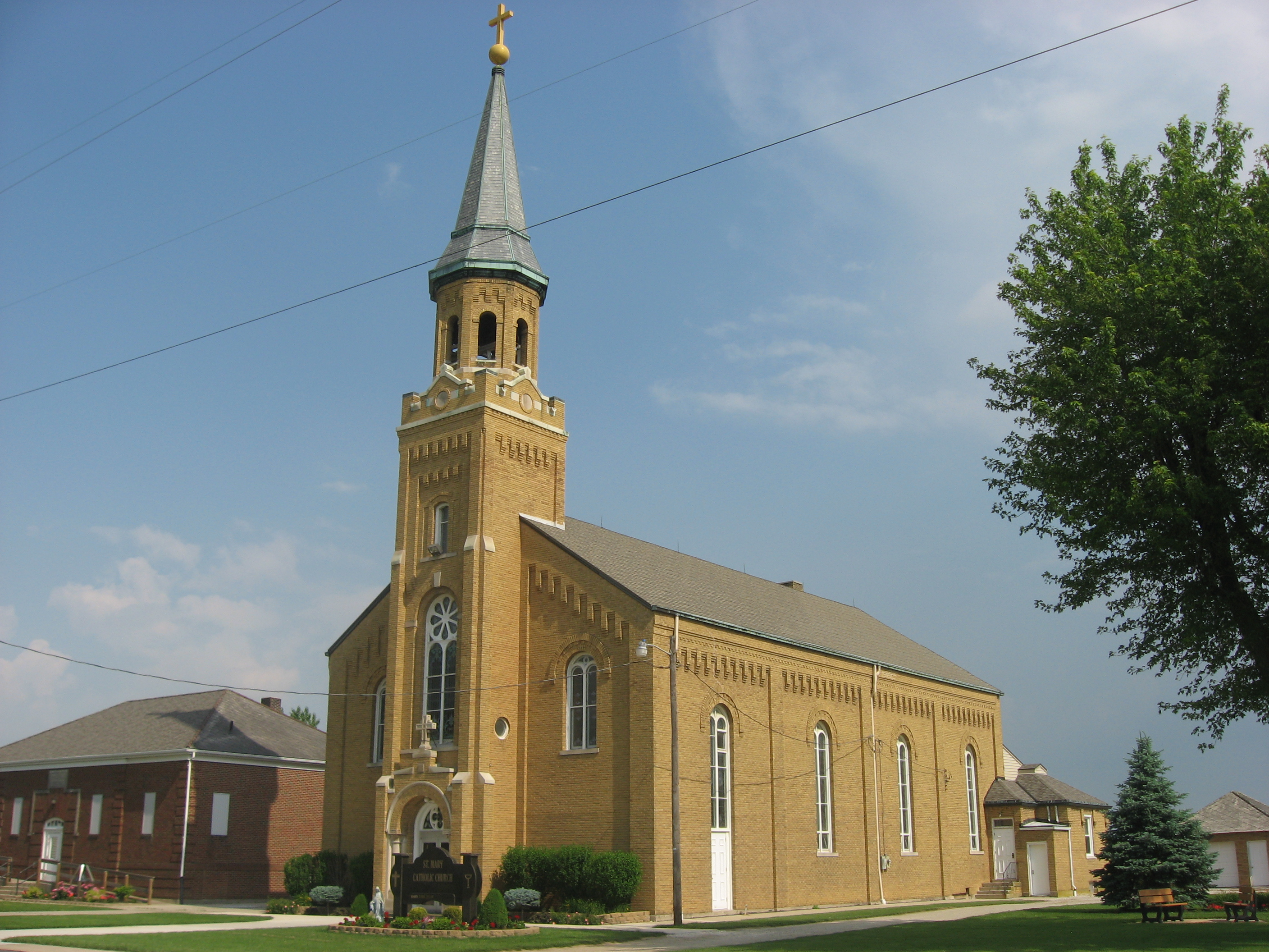 Front and eastern side of St. Mary's Catholic Church, located at 3821 Philothea Road in Philothea, an unincorporated community in Butler Township, Mercer County, Ohio, United States. Built in 1871, the church and its rectory (now destroyed) were listed together on the National Register of Historic Places as a part of the Cross-Tipped Churches of Ohio Thematic Resources.